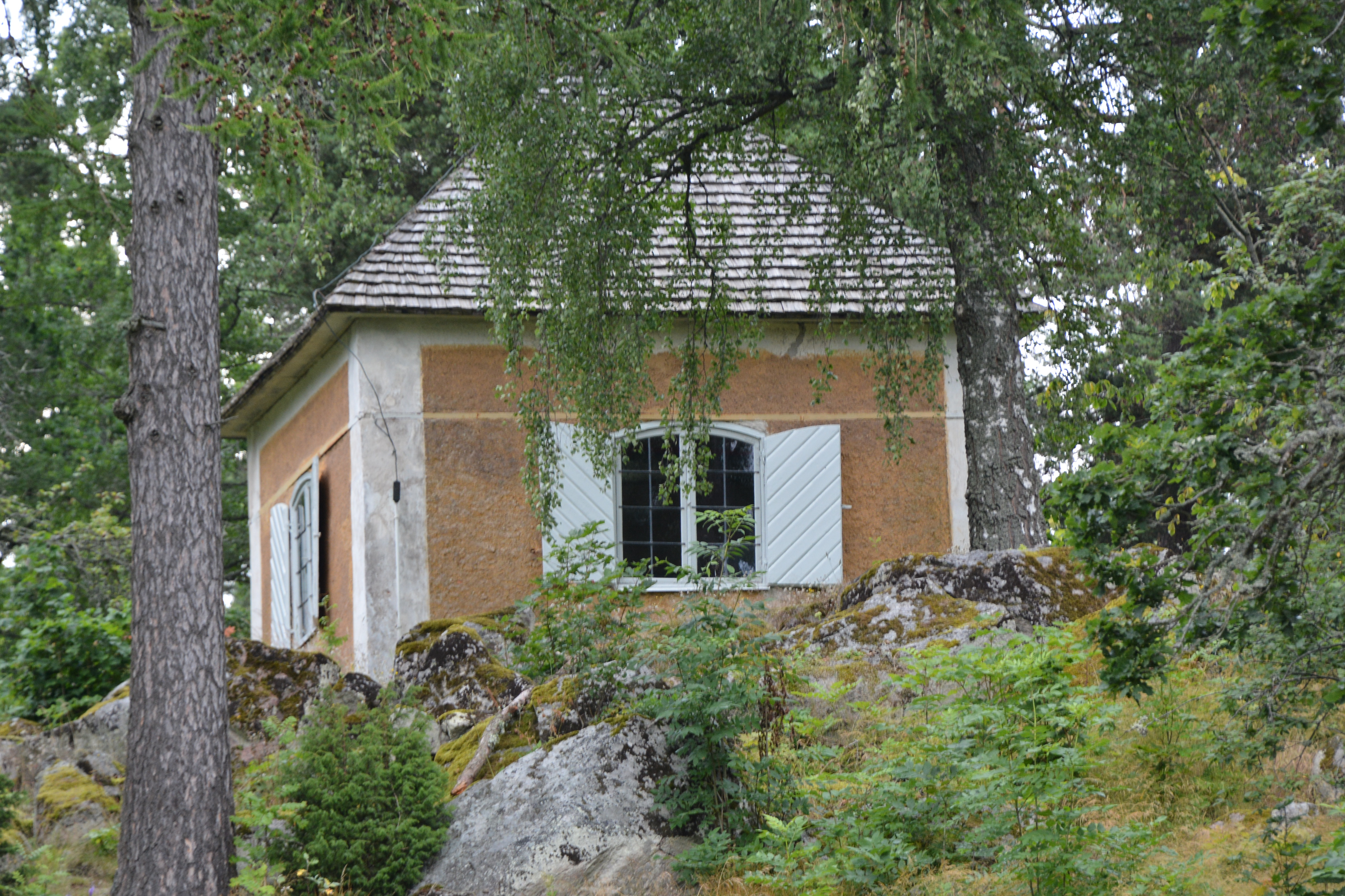 Linnés naturaliemuseum på Linnés Hammarby